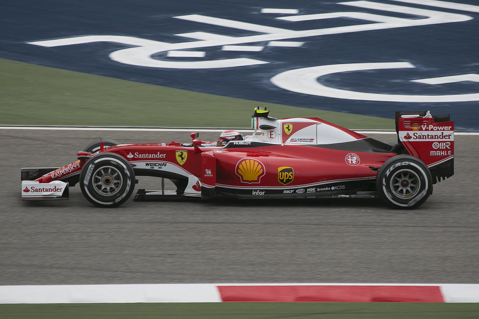 Kimi Räikkönen at the 2016 Bahrain Grand Prix